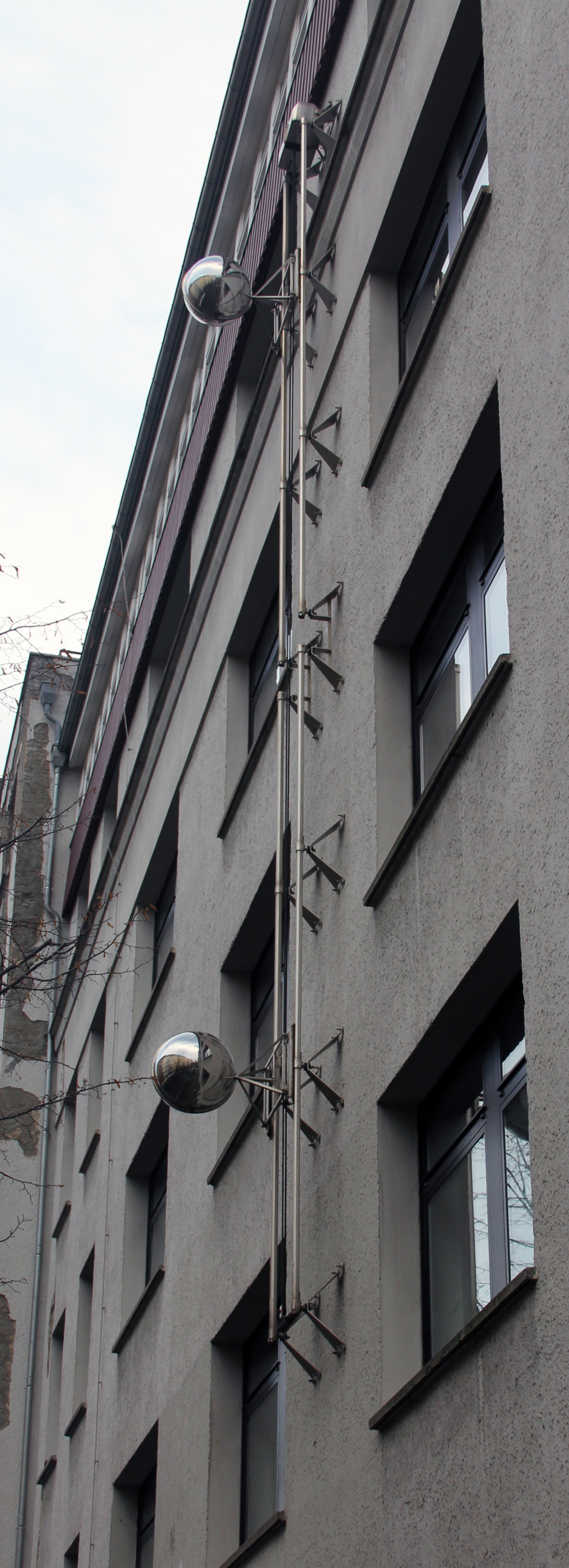 Sculpture, "Neugier" by Philipp Fritzsche, 2001, Hannoversche Straße 30, Berlin-Mitte, Germany